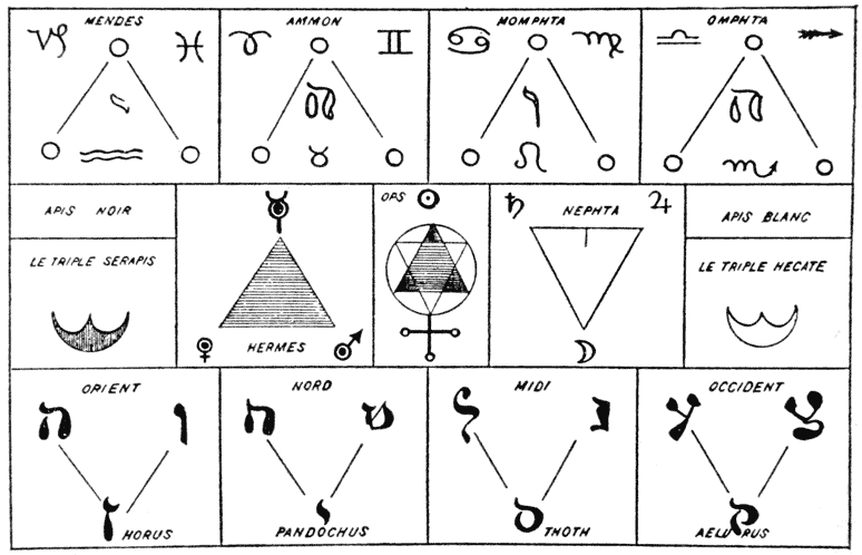 Levi's key to the Bembine Table, first published in Eliphas Levi, History of Magic.